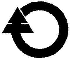 Motegi Tochigi chapter